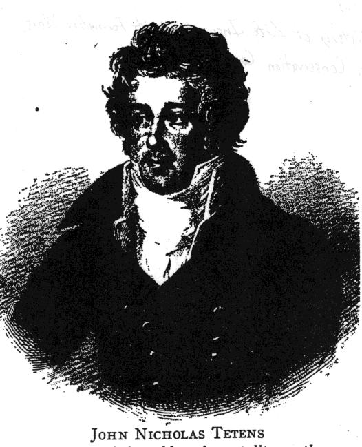 Tetens (1736 - 1807). Retrieved from as it is a copy of a dated image, is under fair use.